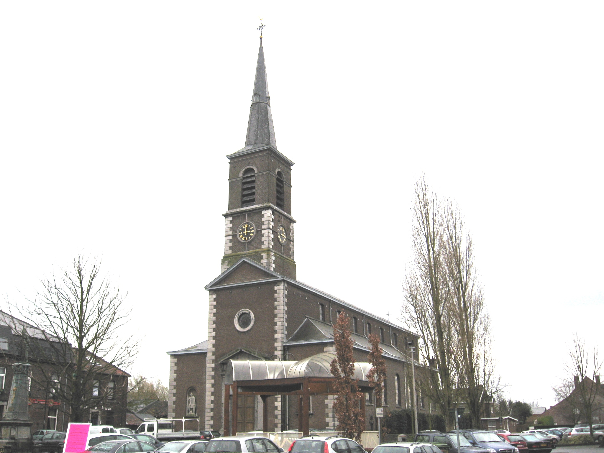 Church of Saint Monulph and Gondulph in Mechelen-aan-de-Maas, Maasmechelen, Limburg, Belgium